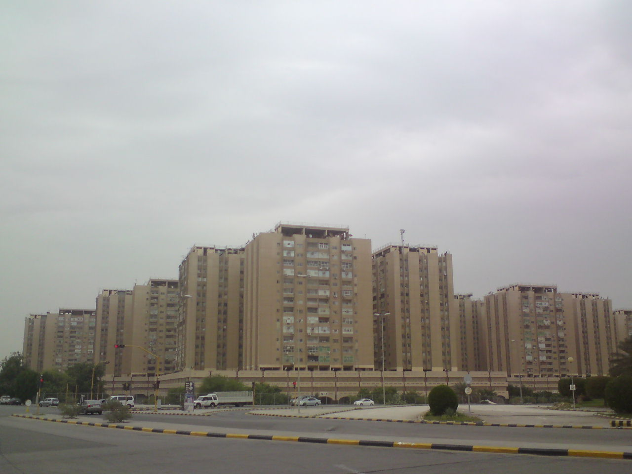 Housing Dammam